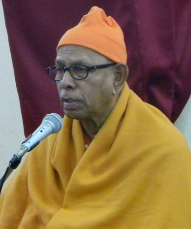 A cropped image of Swami Smaranananda at the microphone, addressing other members of the annual general meeting in December of 2014.